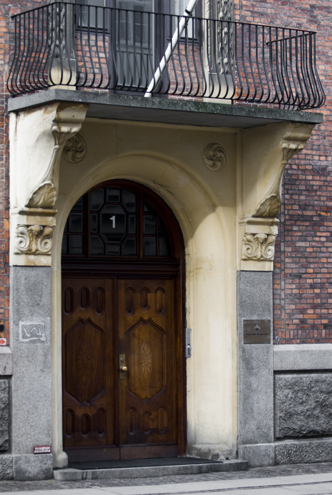 The entrance to the Danish General Attorney (Statsadvokaturen). This photo was uploaded as a part of an conceptual idea: FindVej NoPic.